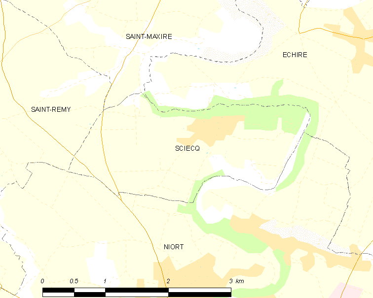 Map of French municipality Sciecq